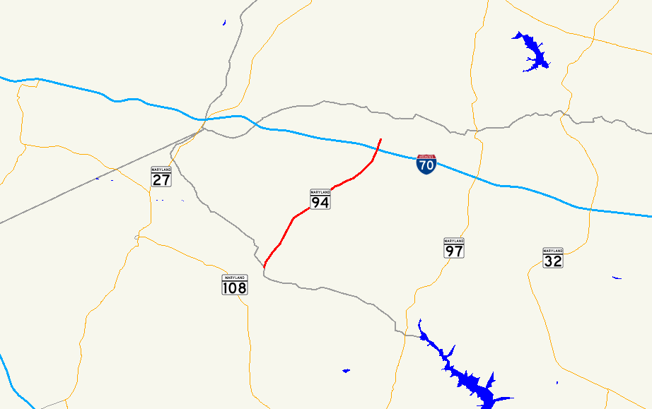 Map of Maryland Route 94